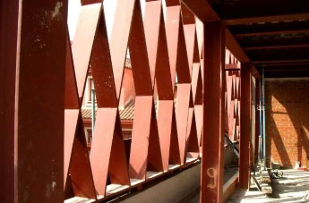 Estructura metálica cubierta en construcción.